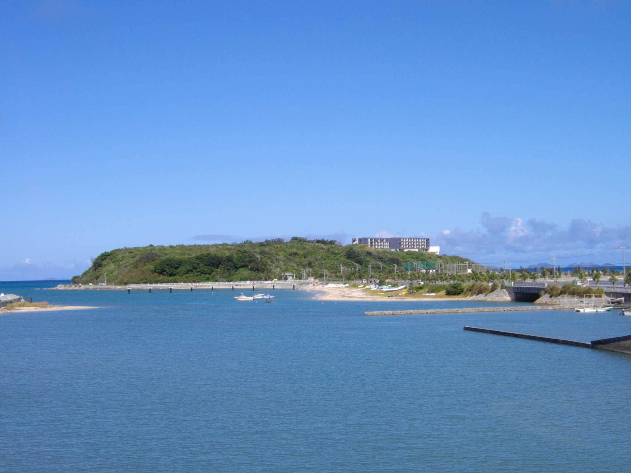 Senagajima